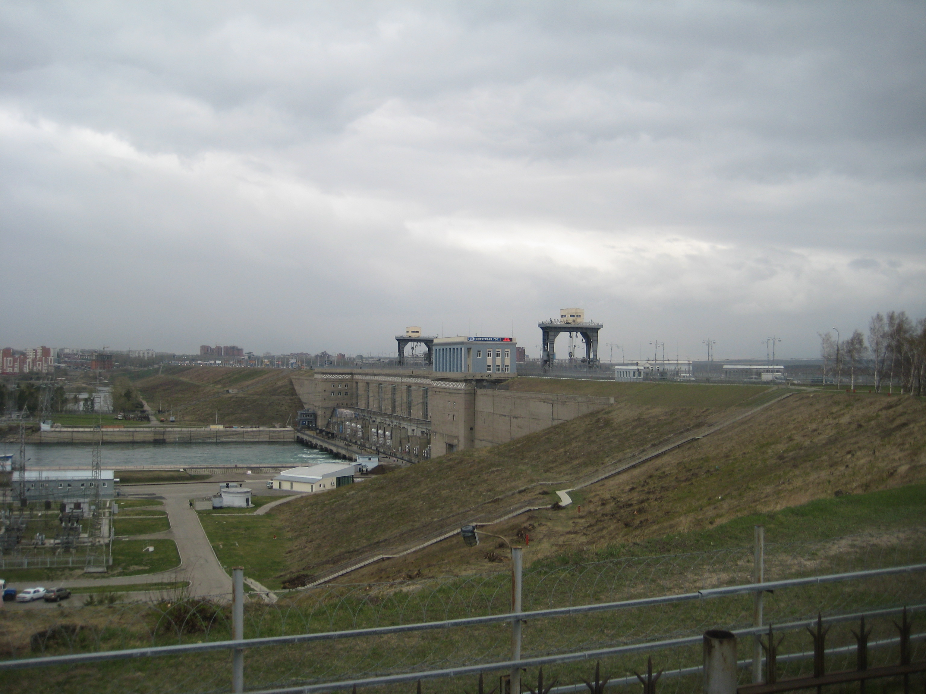 Hydroelectric power plant in Irkutsk / Russia.